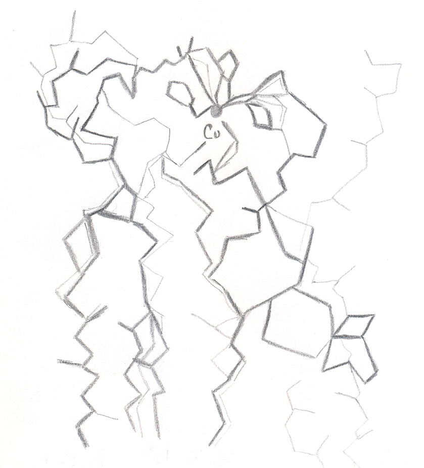 plastocyanin figure